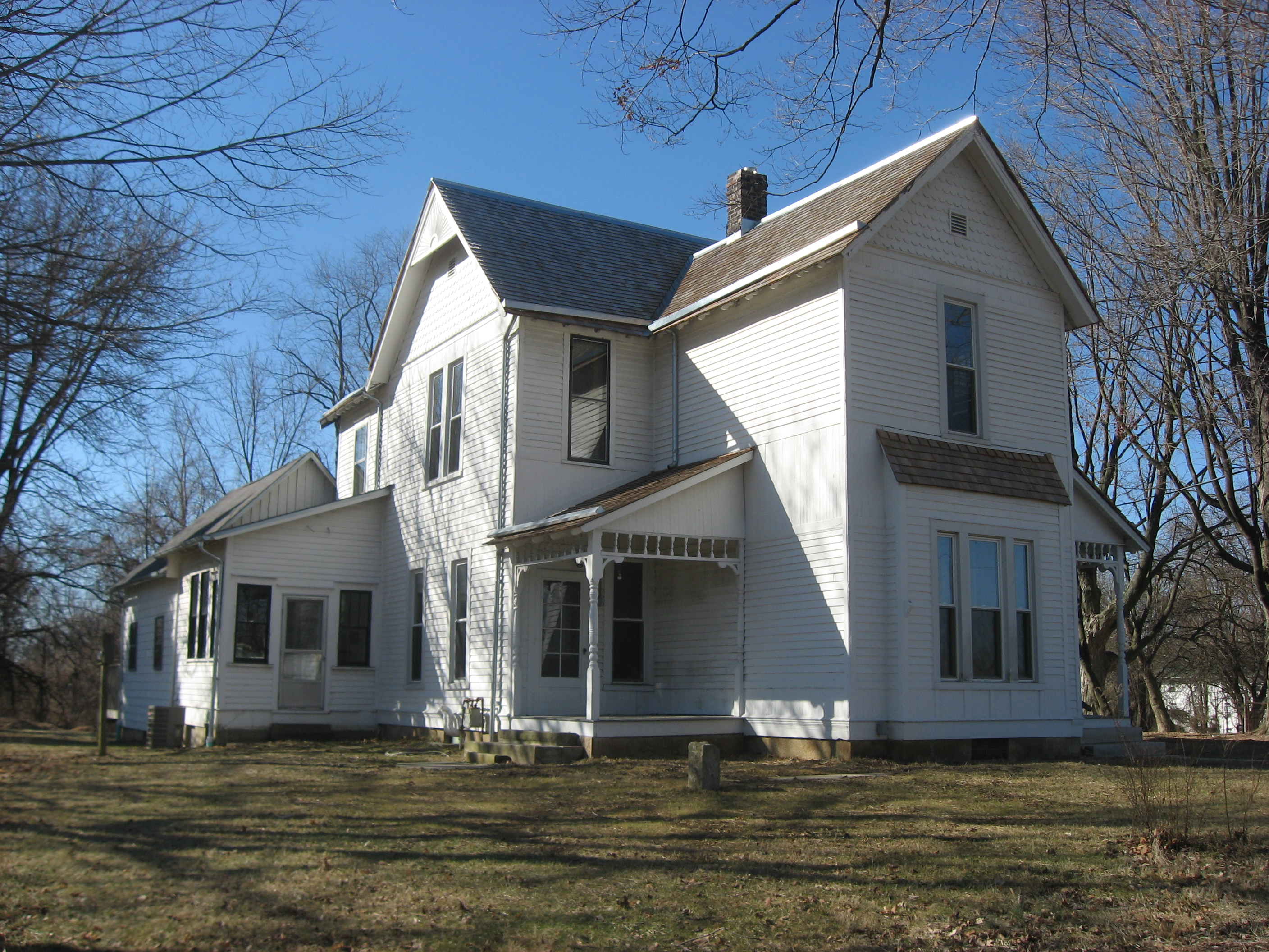 Front and eastern side of the farmhouse at the Hinkle-Garton Farmstead, located at 2920 E. Tenth Street in Bloomington, Indiana, United States. The farm complex is listed on the National Register of Historic Places.